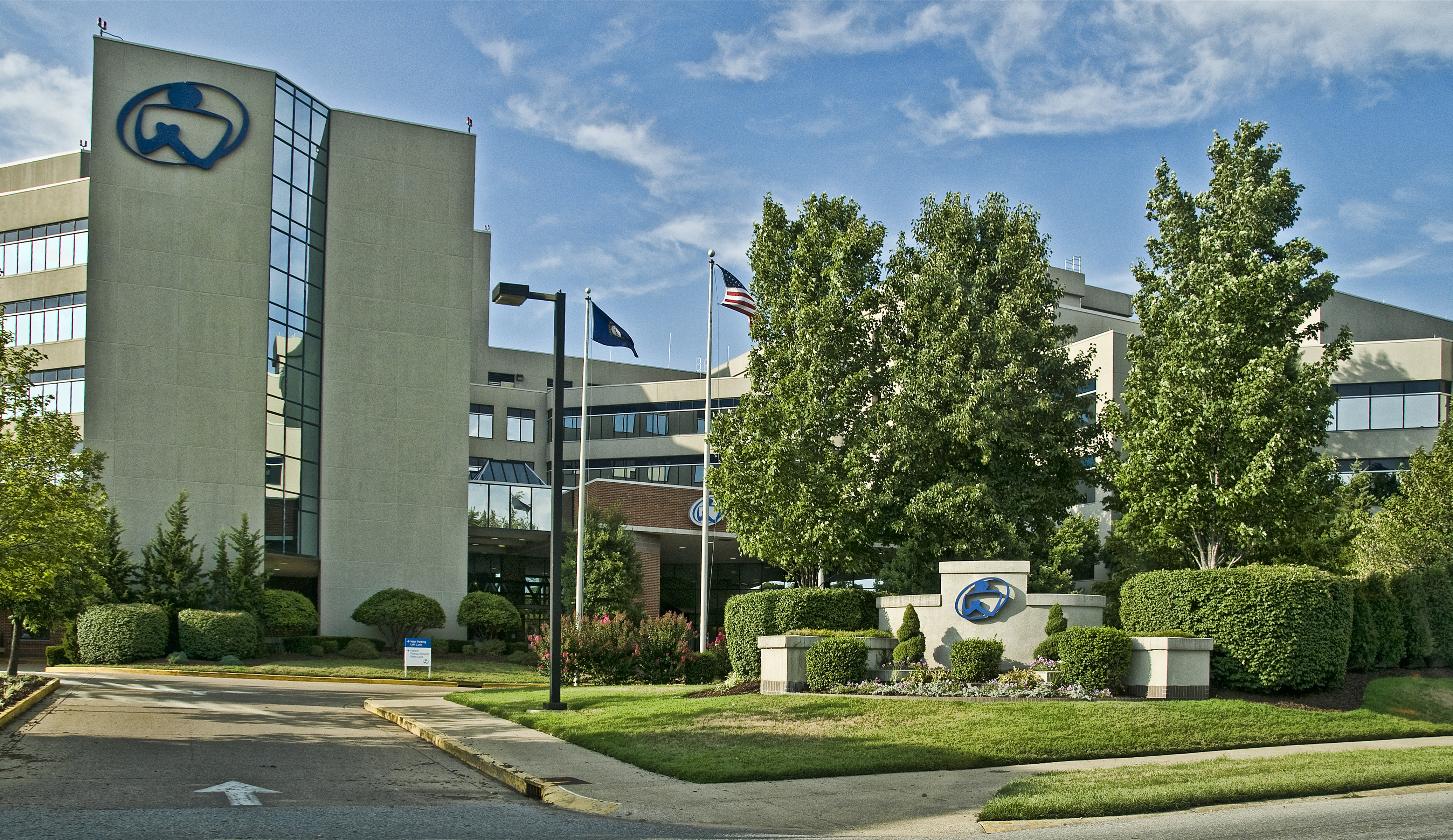 Front entrance to the Owensboro Medical Health System building.